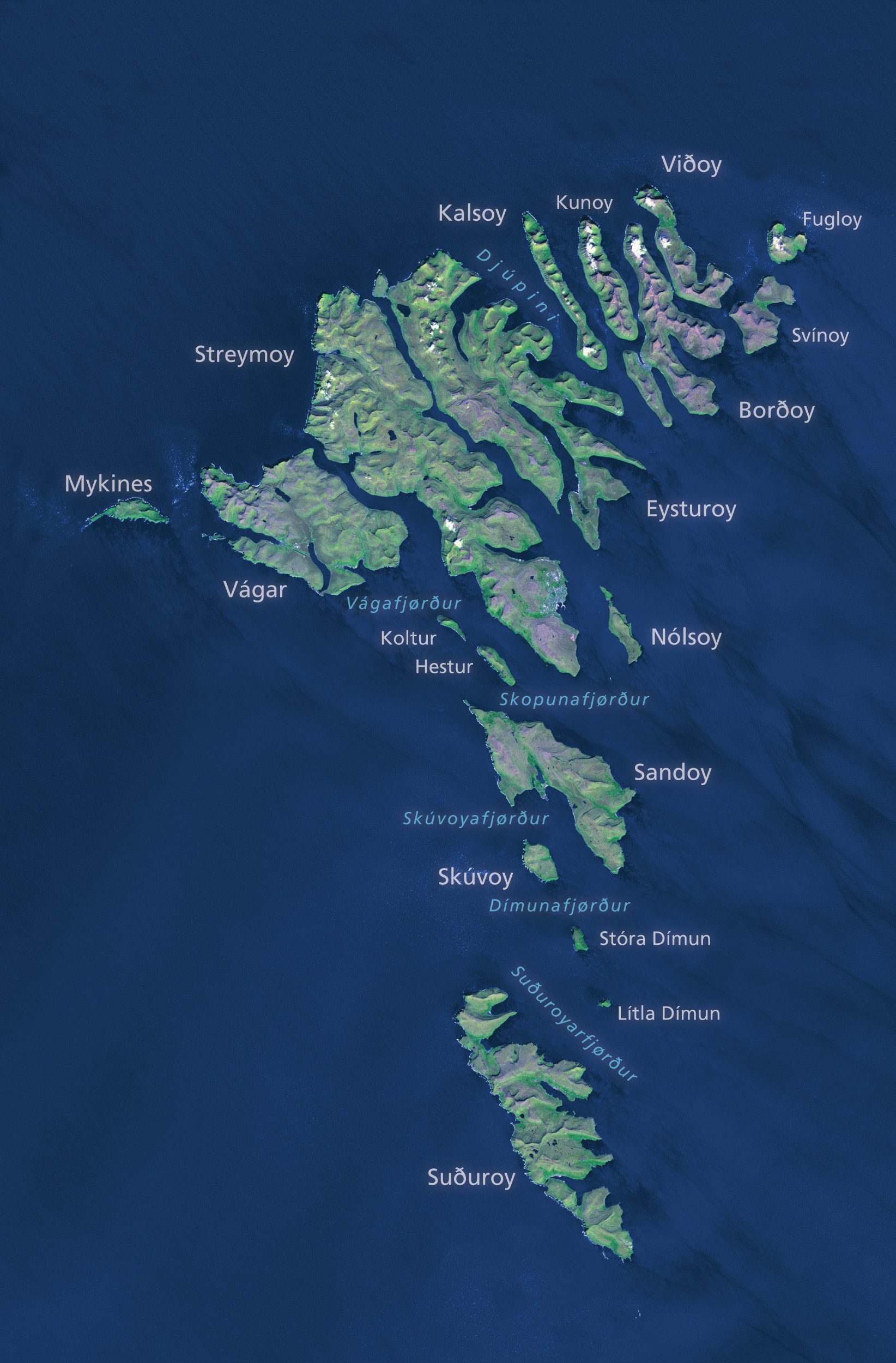 Annotated satellite image of the Faroe Islands